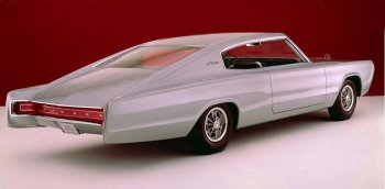 Public press photo released in 1965 by Dodge of the 1965 Charger concept show car.